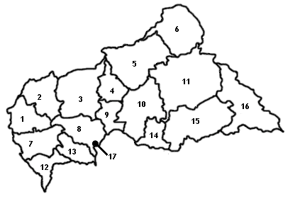 Map of prefectures in Central African Republic